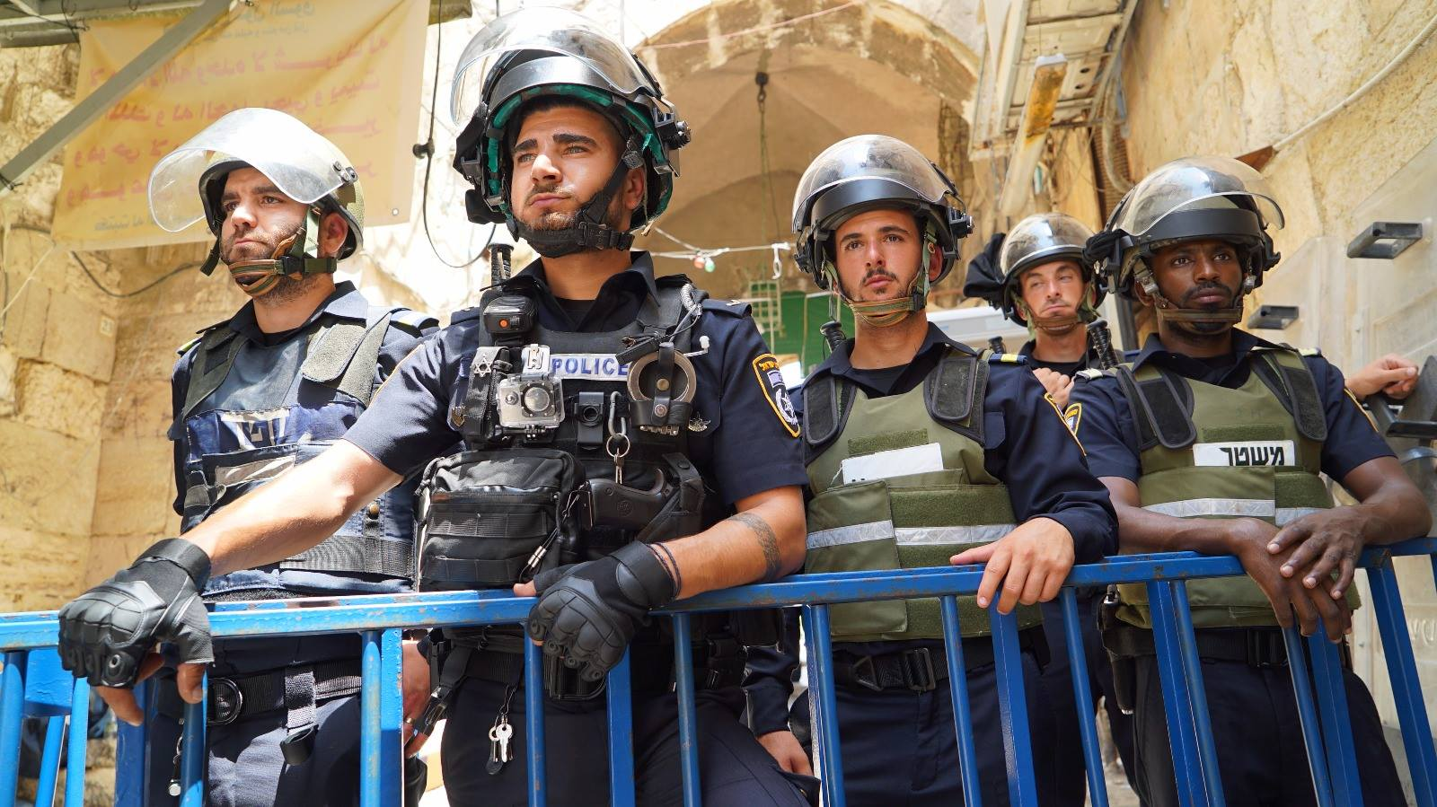 Temple Mount entrance policers on alert before July 21 clashes